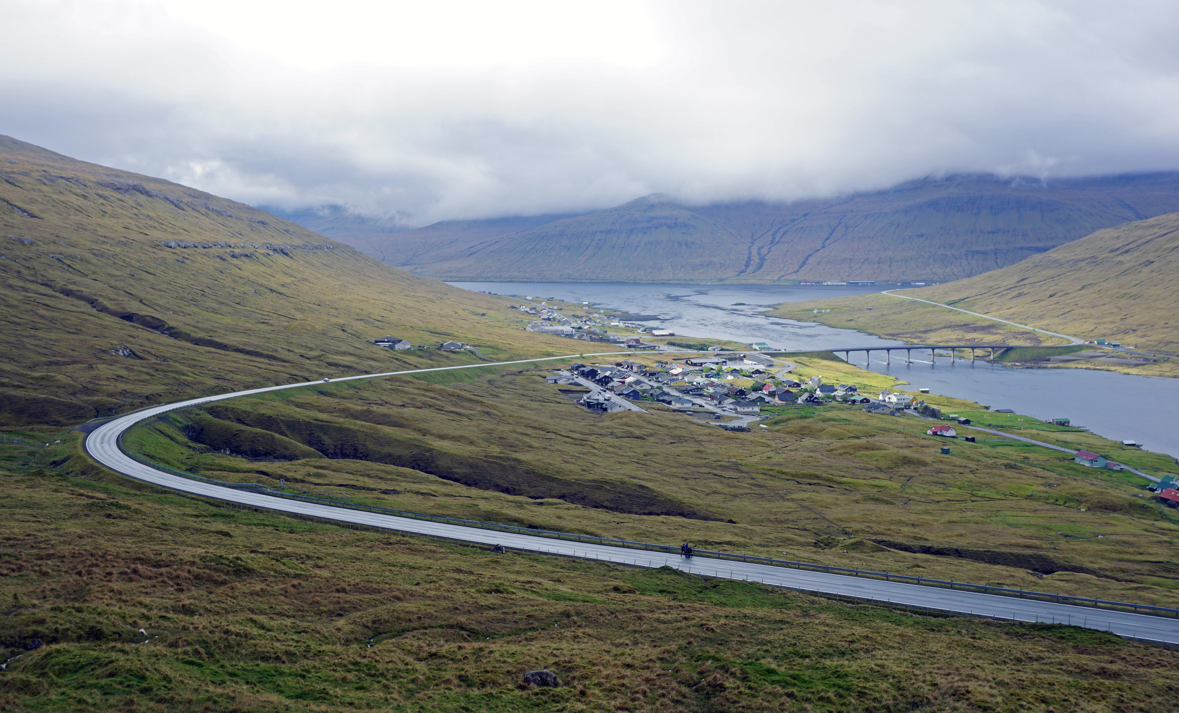 Oyrarbakki, Faroe Islands.